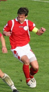 Oleksandr Zhabokrytskyy, player of PFC Sevastopol